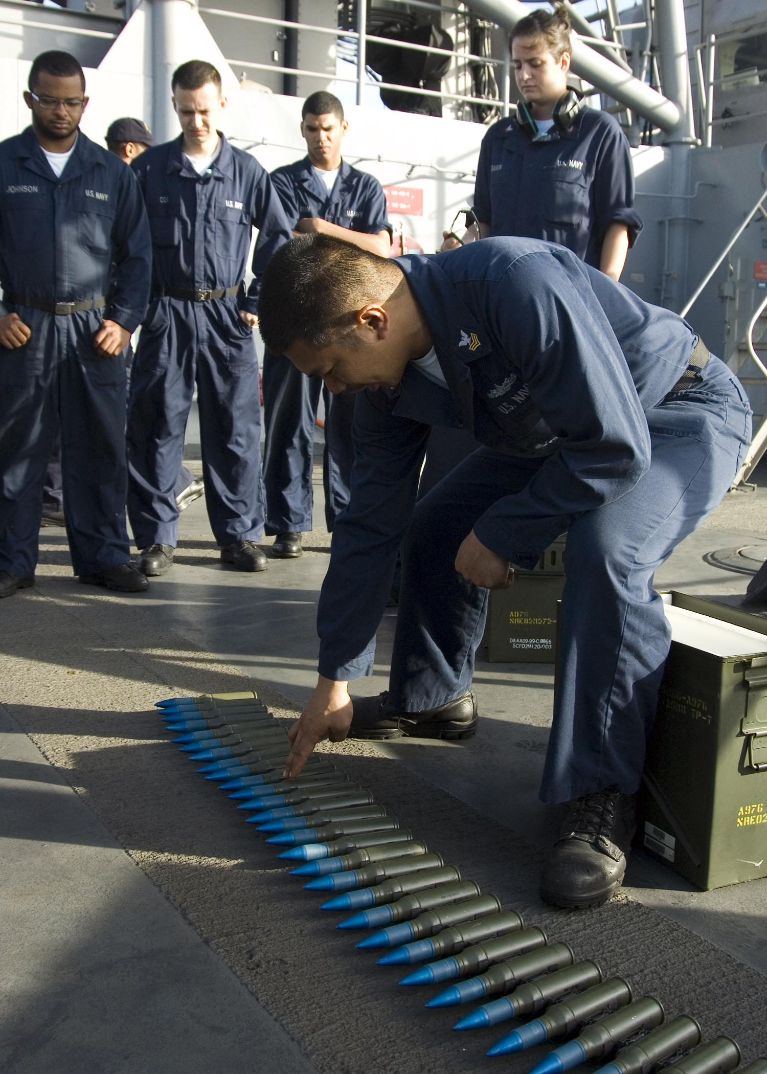 Pacific Ocean (Feb. 26, 2009) Gunners Mate 1st Class Leland Pasion explains how to inspect rounds for safety before a live-fire exercise aboard the amphibious dock landing ship USS Harpers Ferry (LSD 49). (U.S. Navy photo by Mass Communication Specialist 2nd Class Matthew R. White/Released)